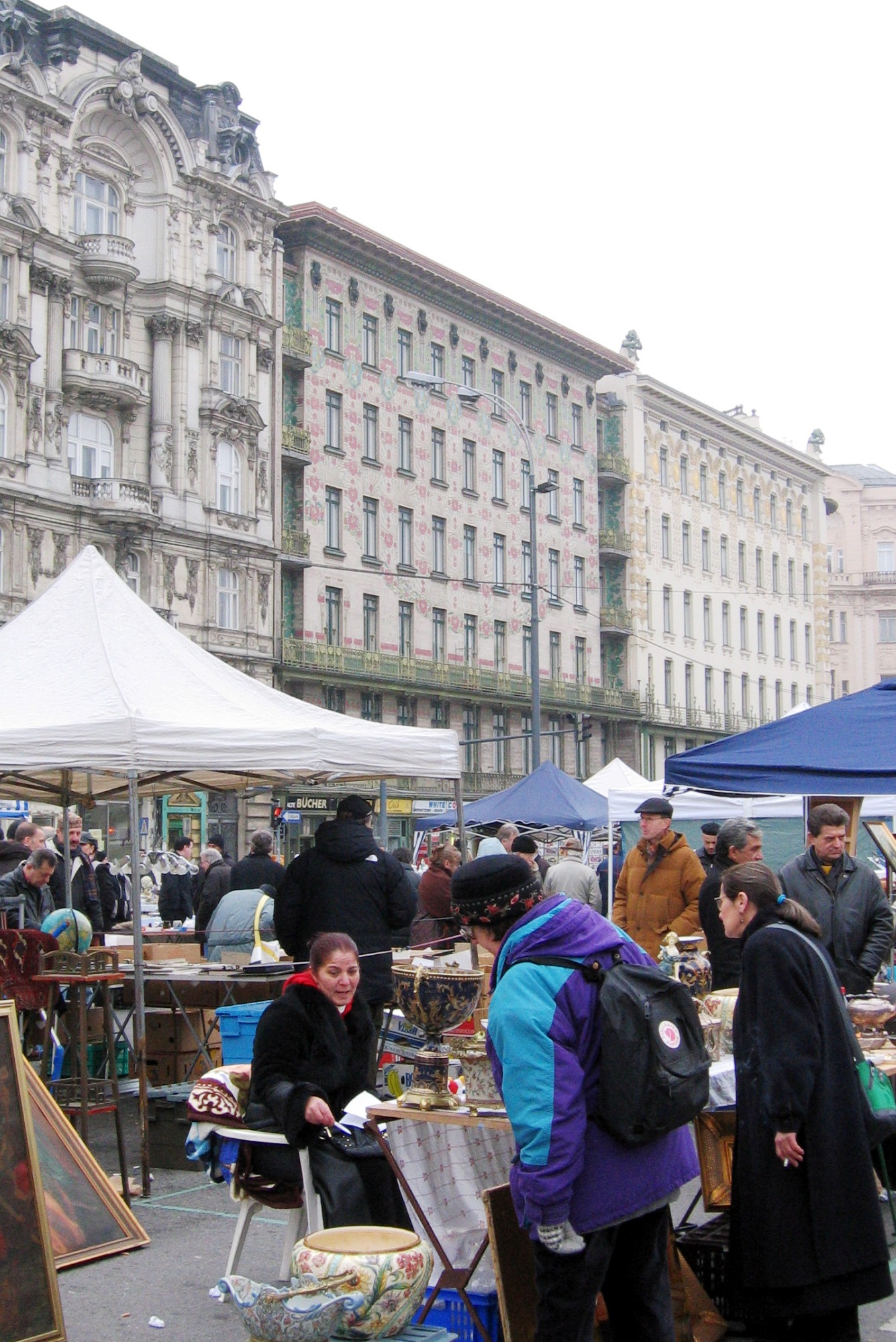 Flea market on the Naschmarkt, in the background Otto Wagner's buildings on the Linke Wienzeile can be seen.